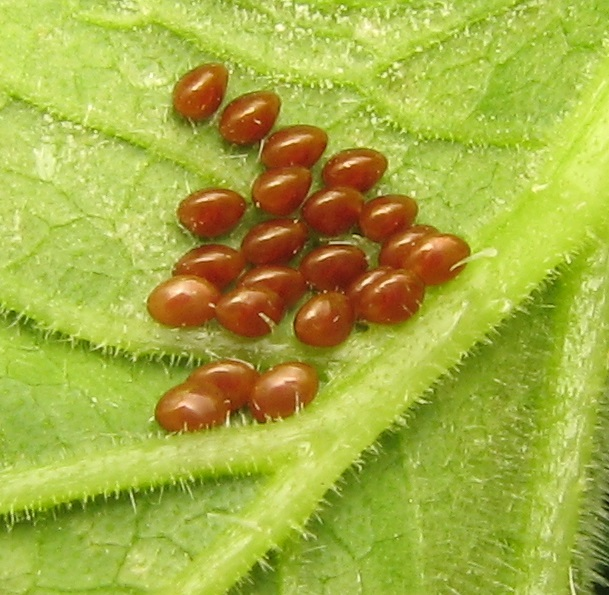 Eggs of Anasa tristis (squash bug) on squash leaf. Size: +/- 1mm each. Pennypack farm, Horsham, Montgomery County, Pennsylvania, USA.